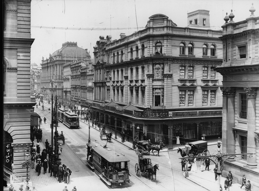 Format: Glass plate negative. This files was posted to Flickr by The Powerhouse Museum (See their website for further information). Many thanks to the Powerhouse Museum for helping release this wonderful material. This tag does not indicate the copyright status of the attached work. A normal copyright tag is still required. See Commons:Licensing for more information.